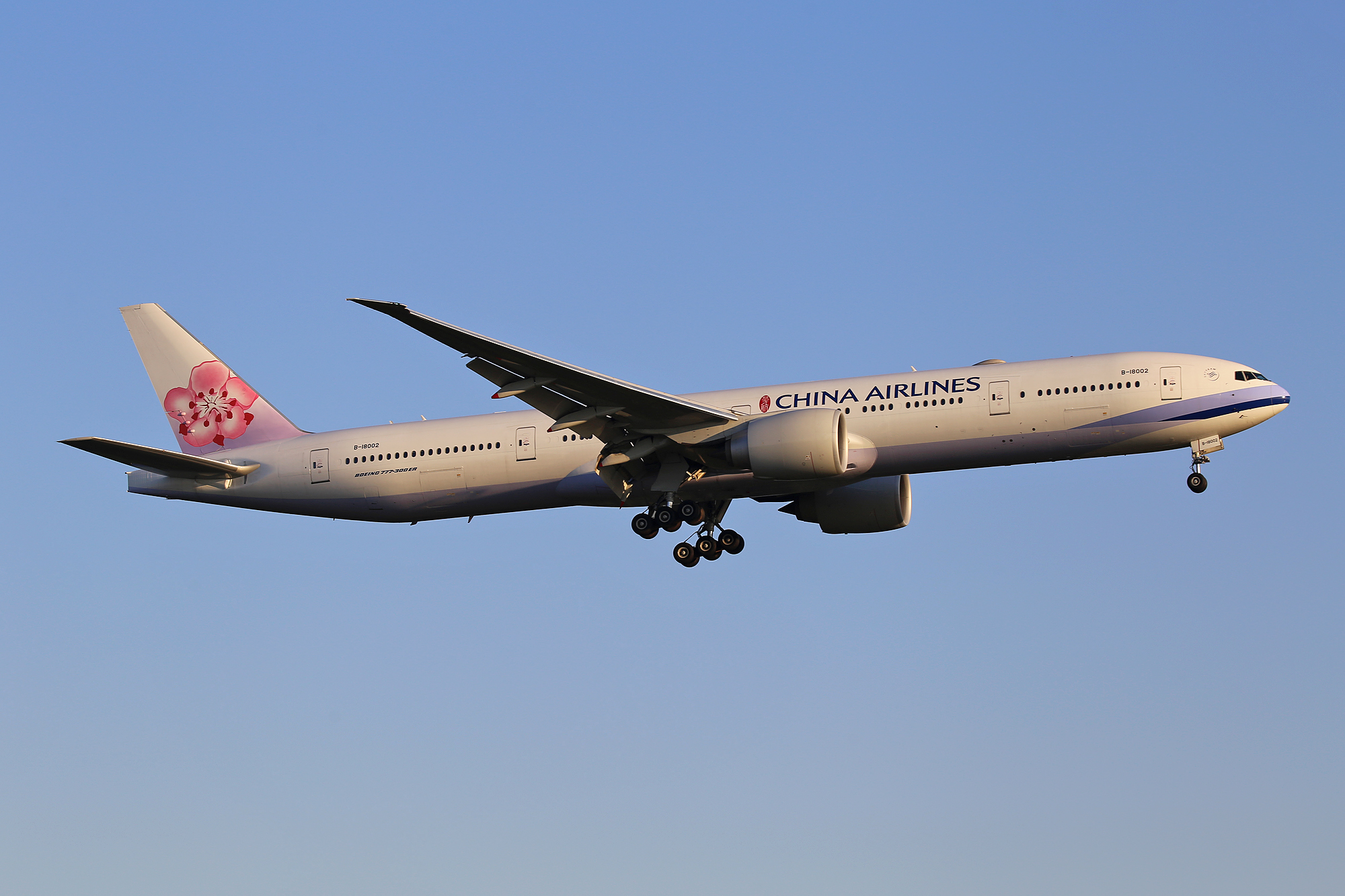 Frankfurt am Main (Rhein-Main AB) (FRA / EDDF / FRF) Germany 8.2016 from Taipei